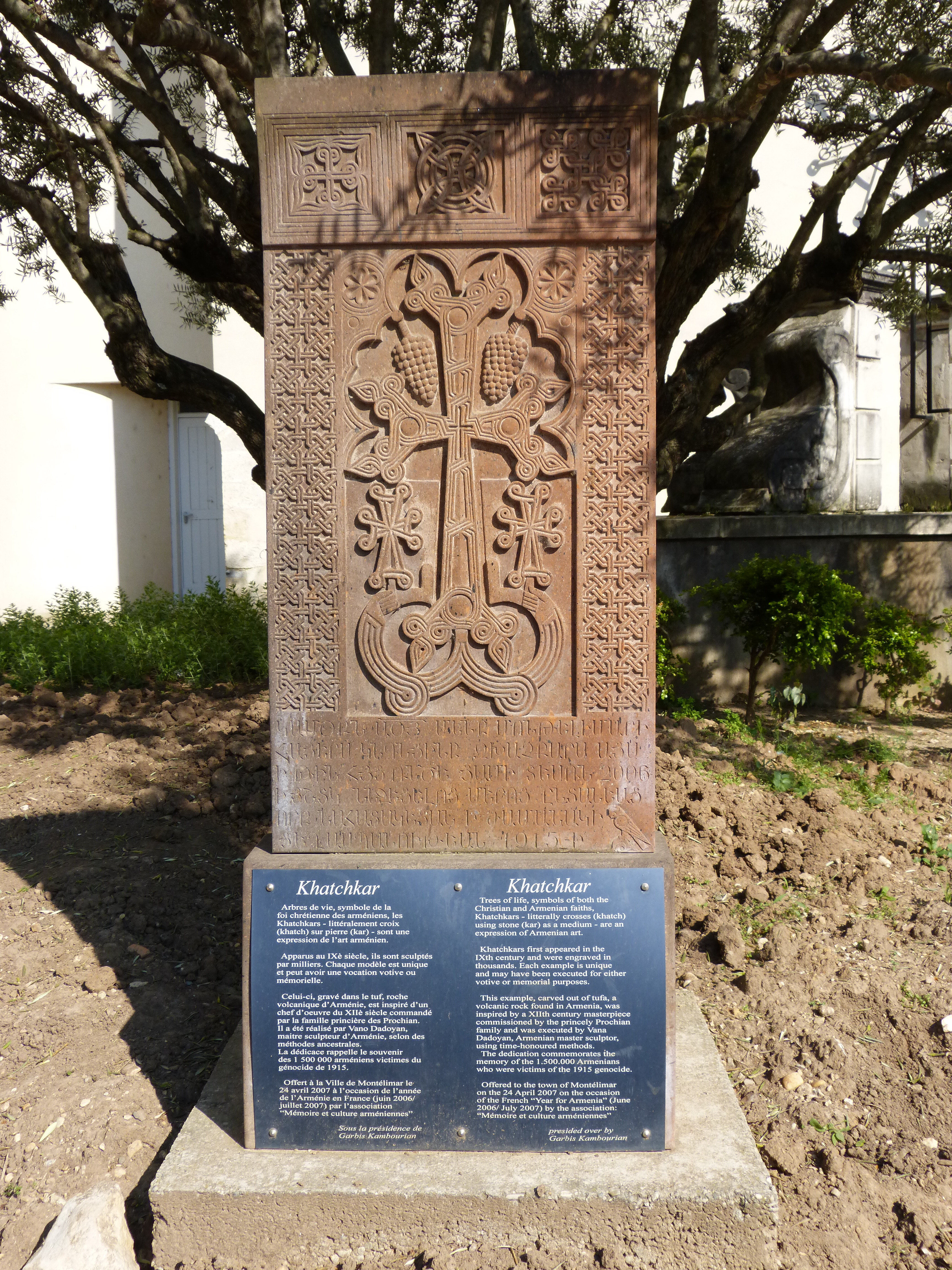 « Khatchkar » offered to the town of Montélimar by the association « Mémoire et culture arméniennes » in memory of the Armenian genocide of 1915.